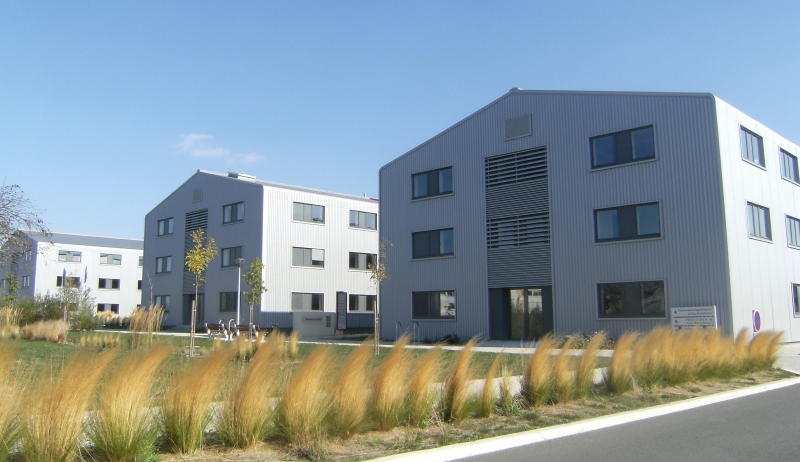 Maison de l'Emploi et CAPR